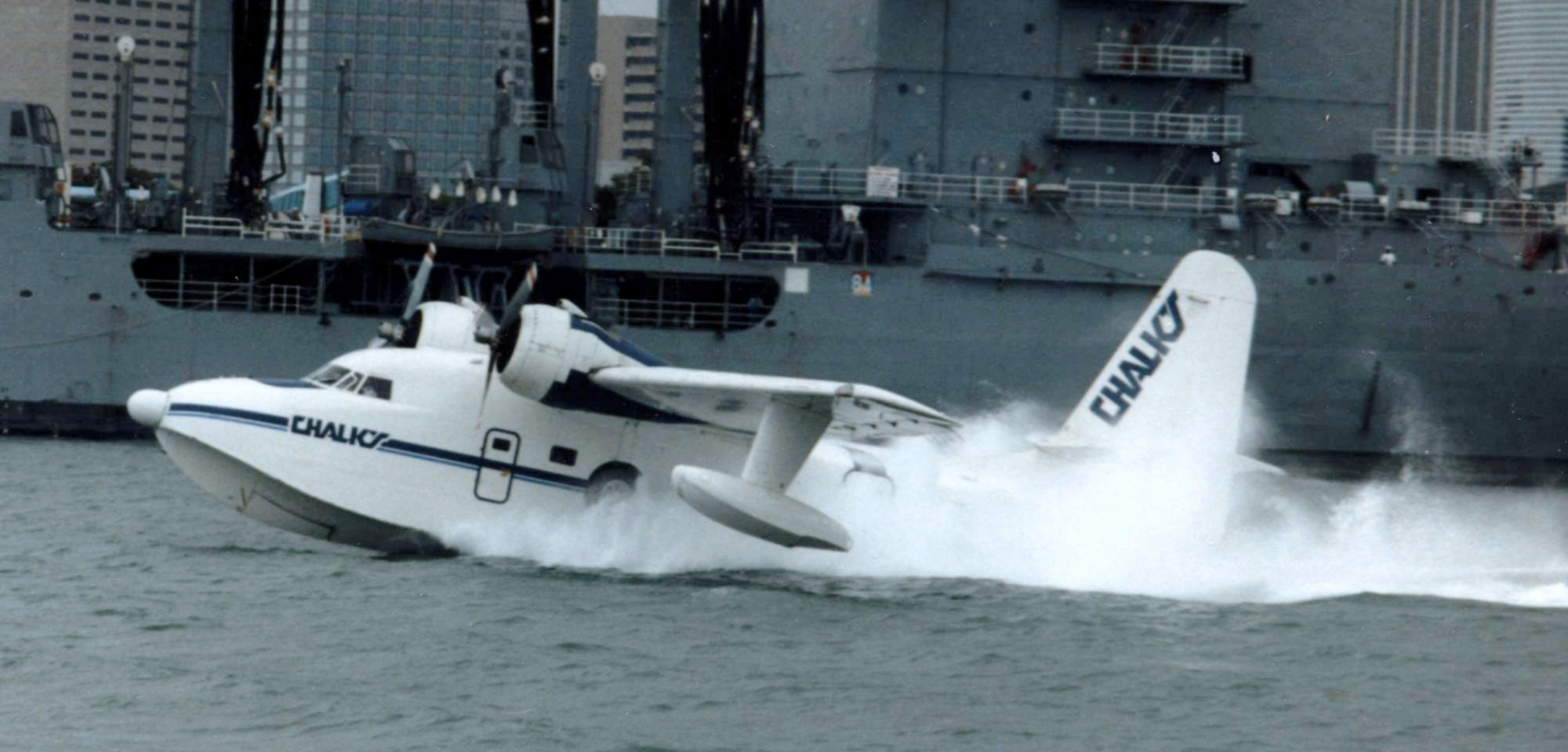 Grumman HU-16D Albatross amphibian aircraft of Chalks International landing in Miami Harbor